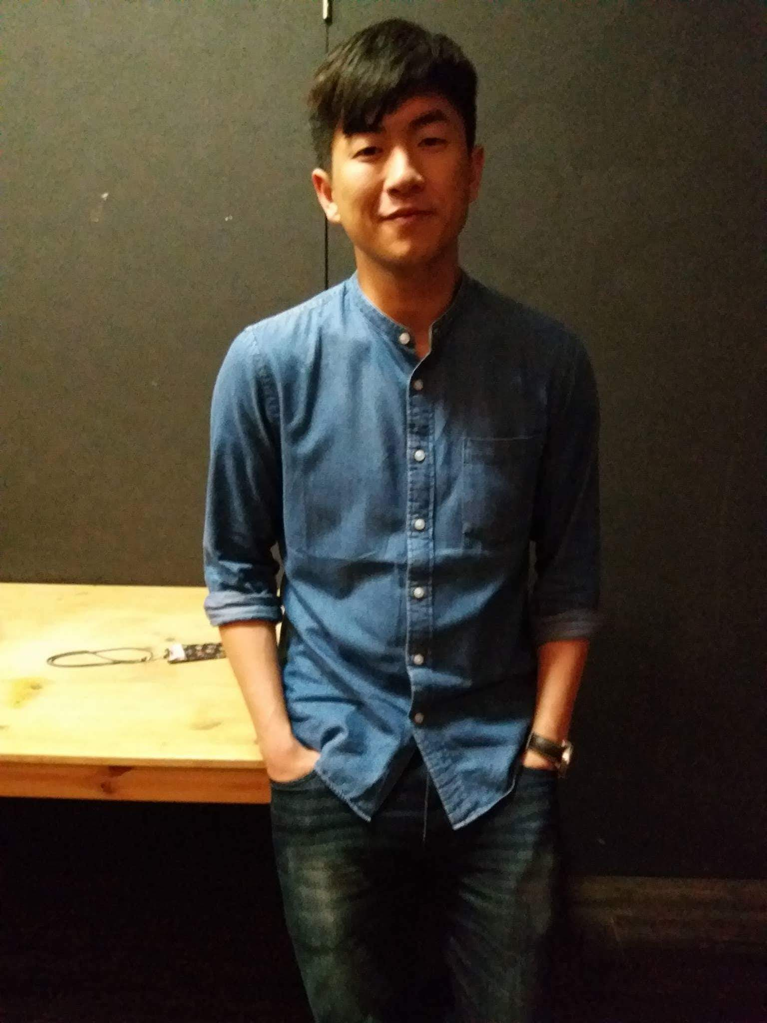 Ma Kwun Tung